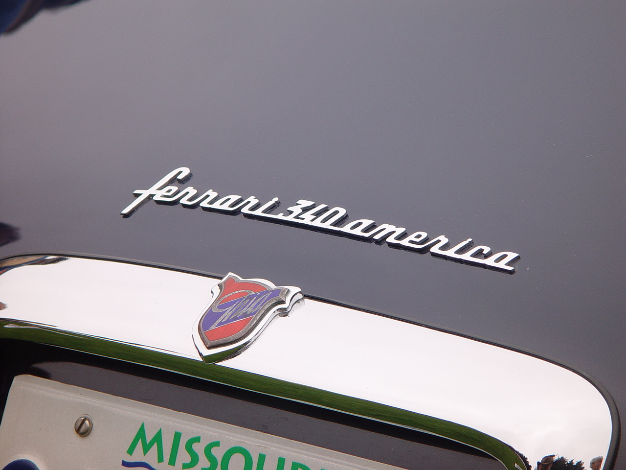 Ferrari 340 America Ghia Coupé. Photograph taken at 2004 Concorso Italiano.